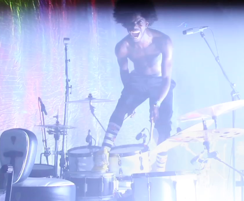 PSM live in Paris with Gorilla Sound System 2012